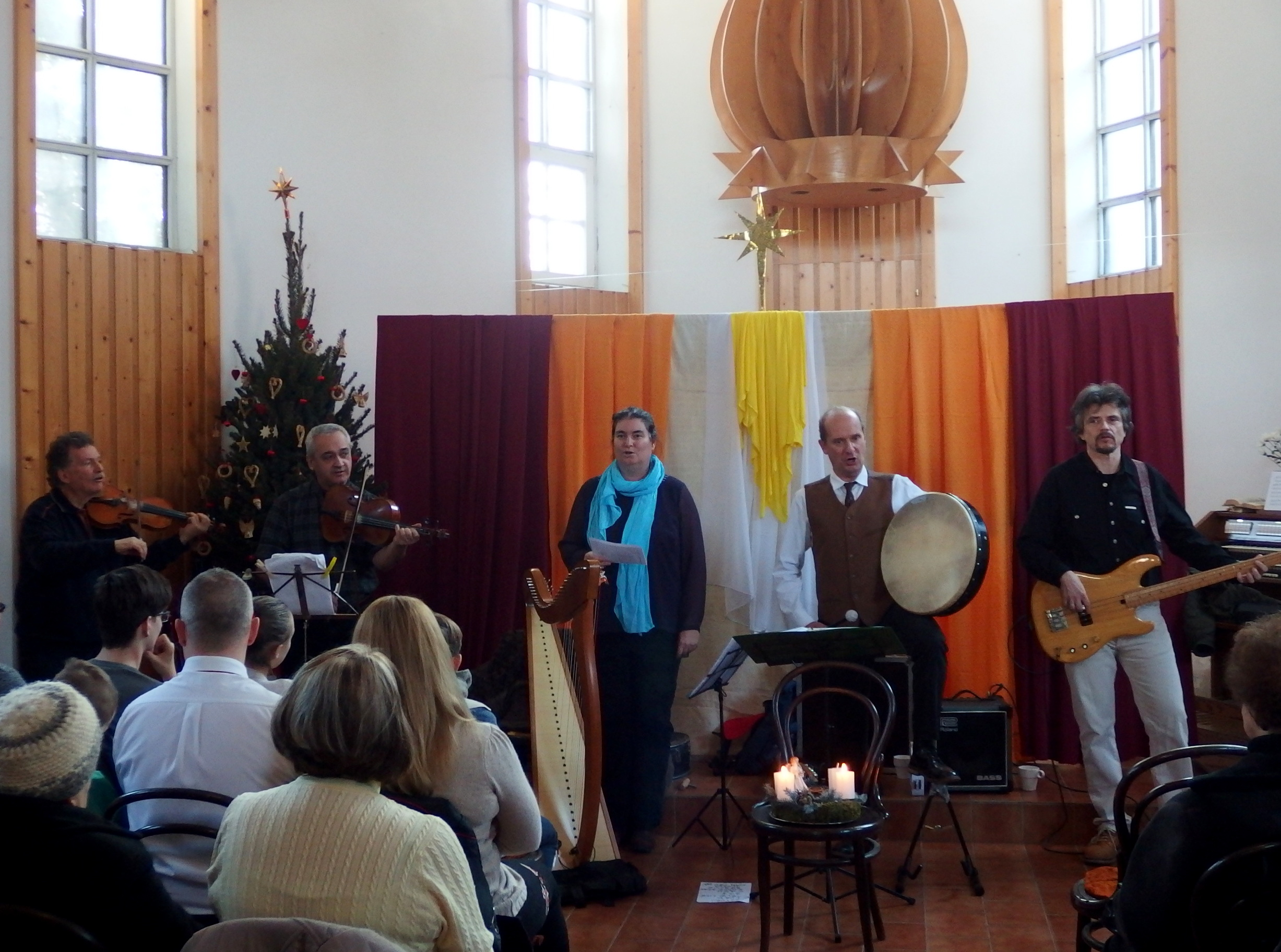 The Hungarian Irish-Celtic music band M.É.Z.